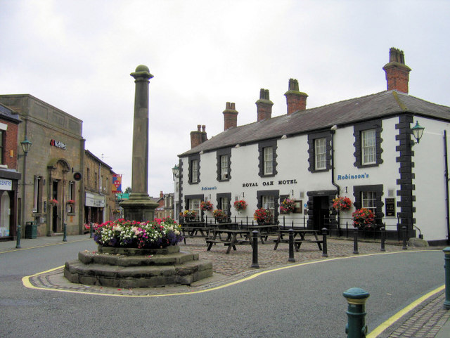 Royal Oak, Garstang. The Royal Oak public house on the High Street. The Market Cross is in the foreground